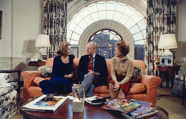 Barbara Walters (left) interviewing Gerald Ford (center) and Betty Ford (right) at the White House in 1976.